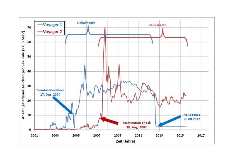 Changing of particle density at thermation shock and heliopause (Voyager 1 and 2)